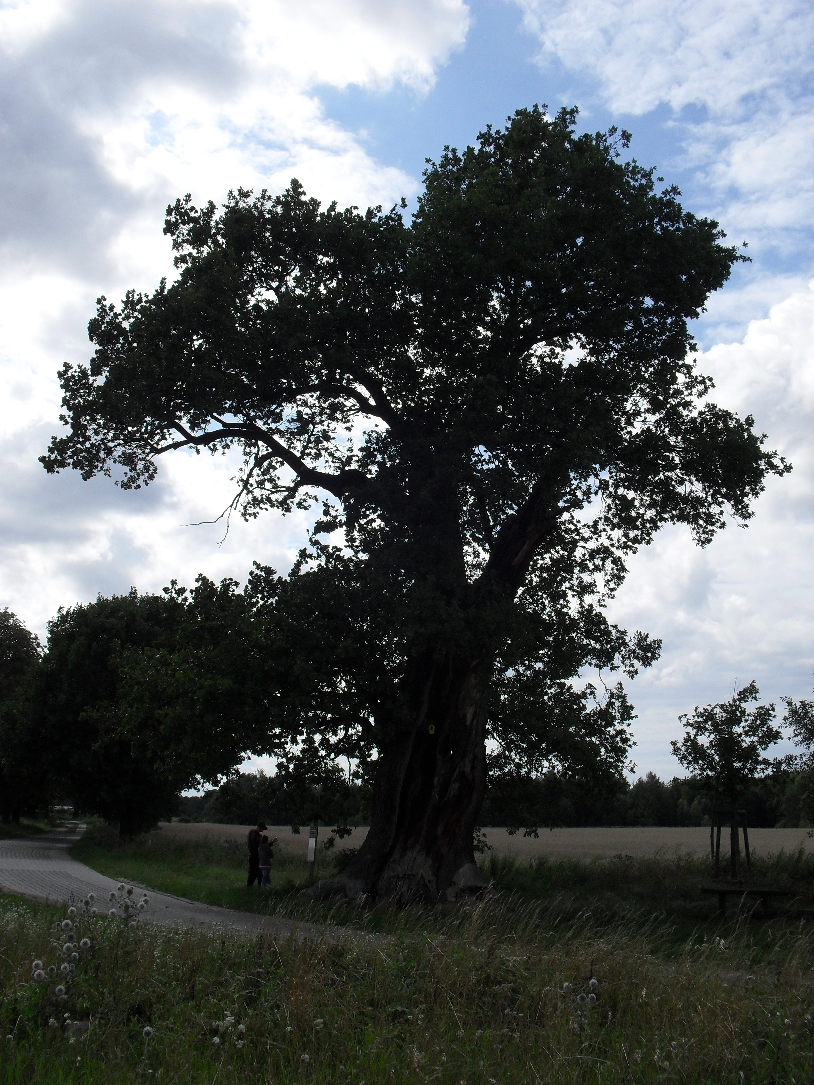 Derfflinger Oak between Gusow and Werbig, Germany